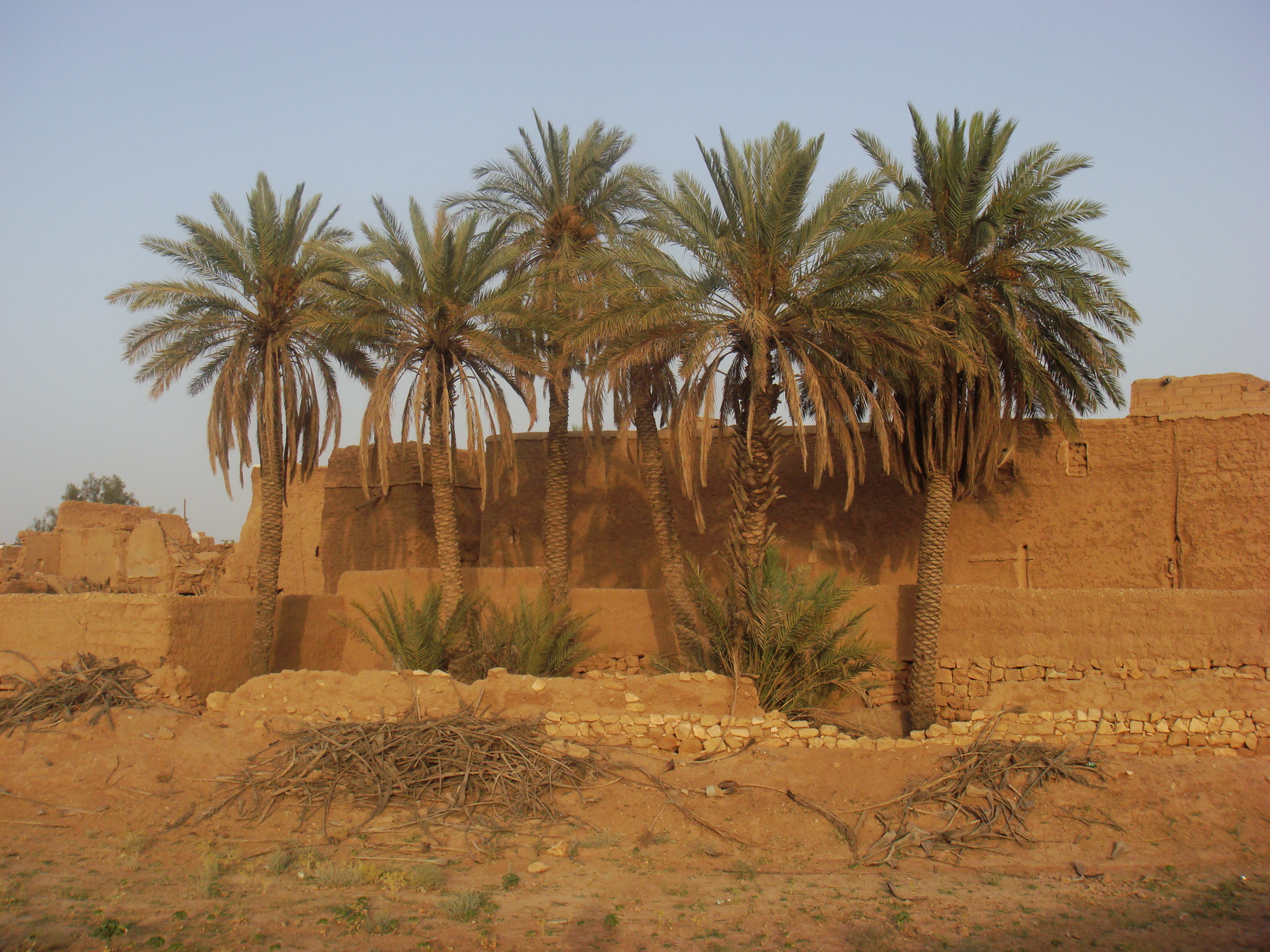 majmaah, saudi arabia